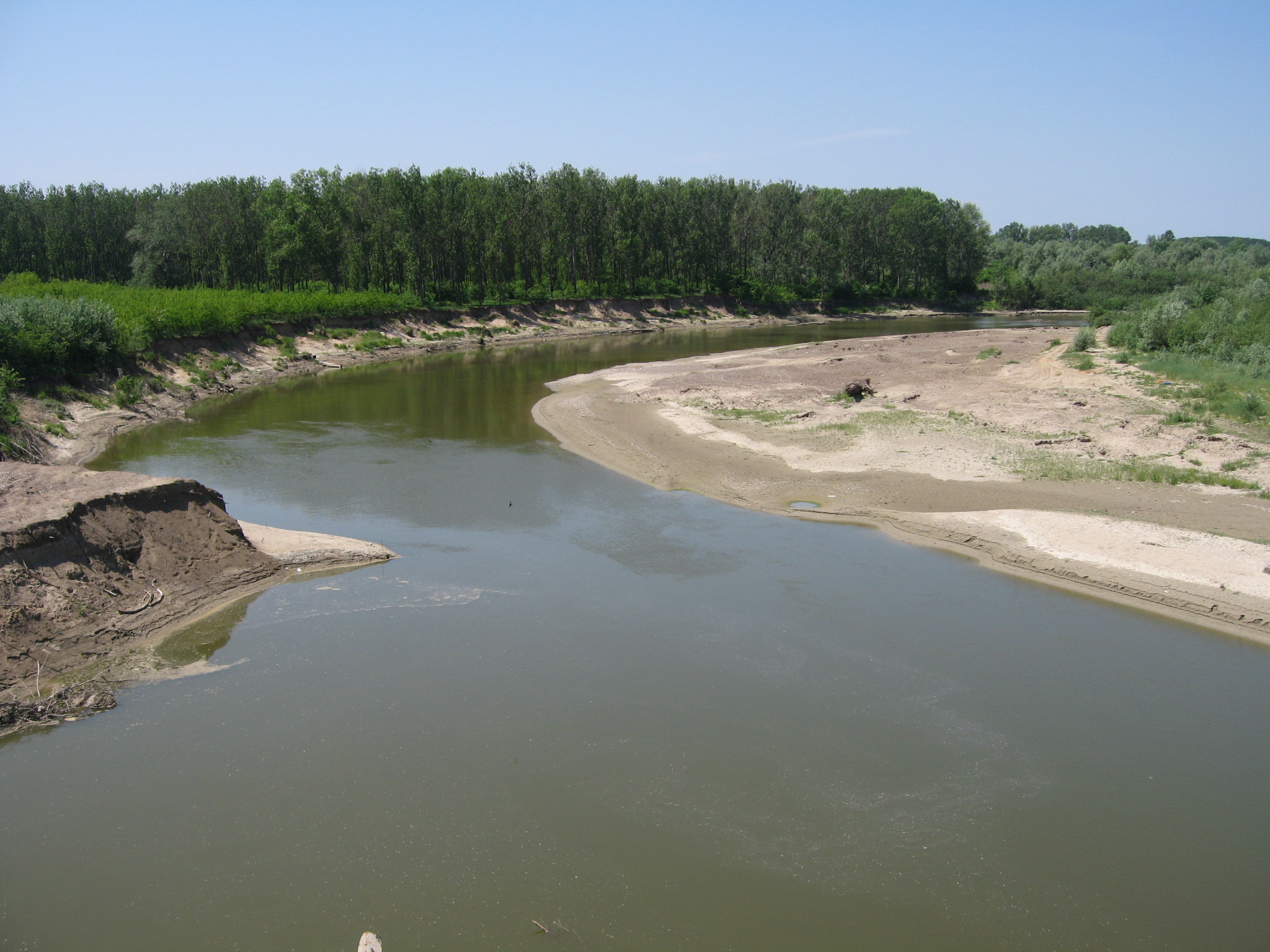 Sereth, at Mirceşti (Iaşi county), Romania